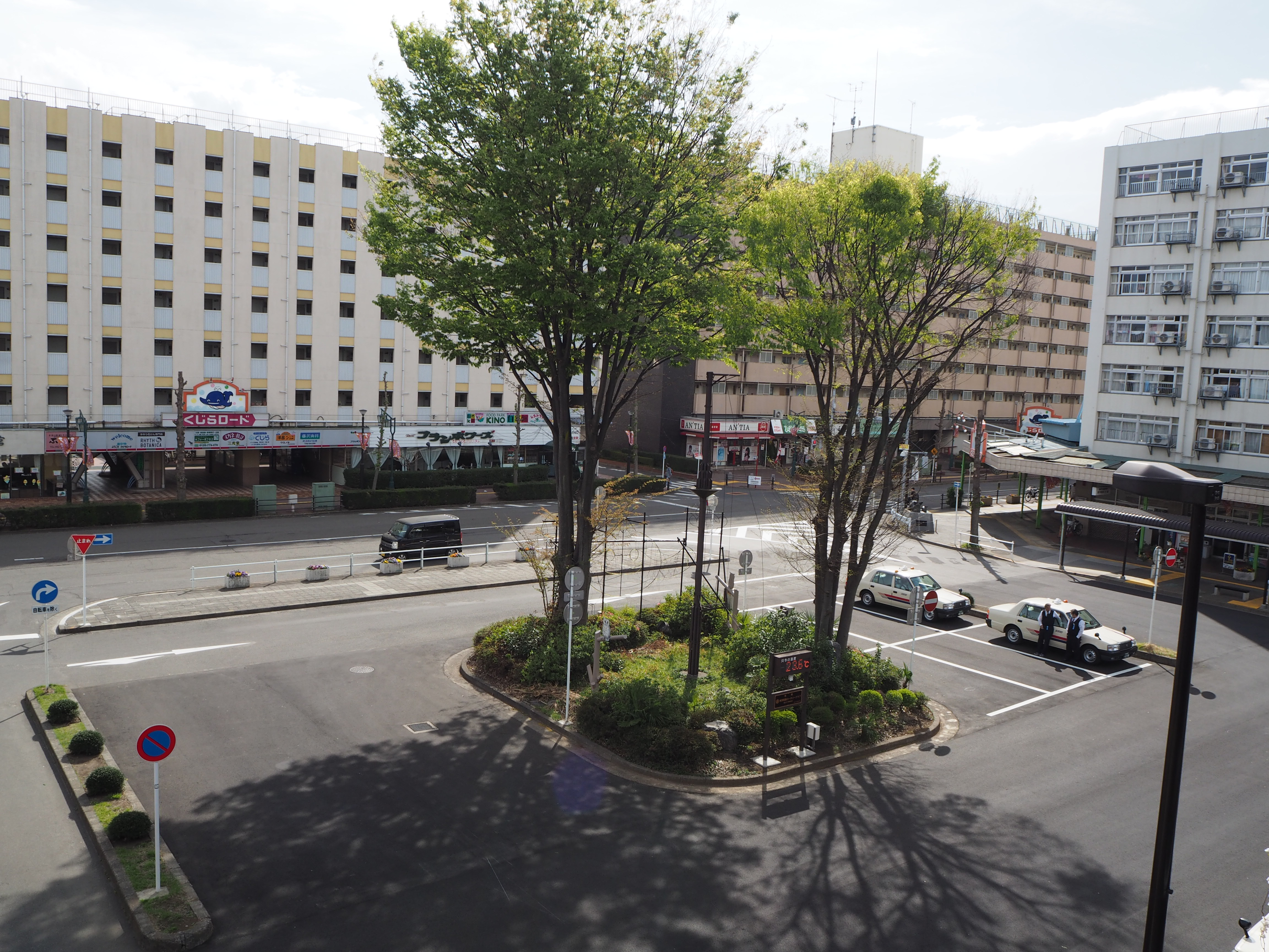 In front of Higashi-Nakagami Station